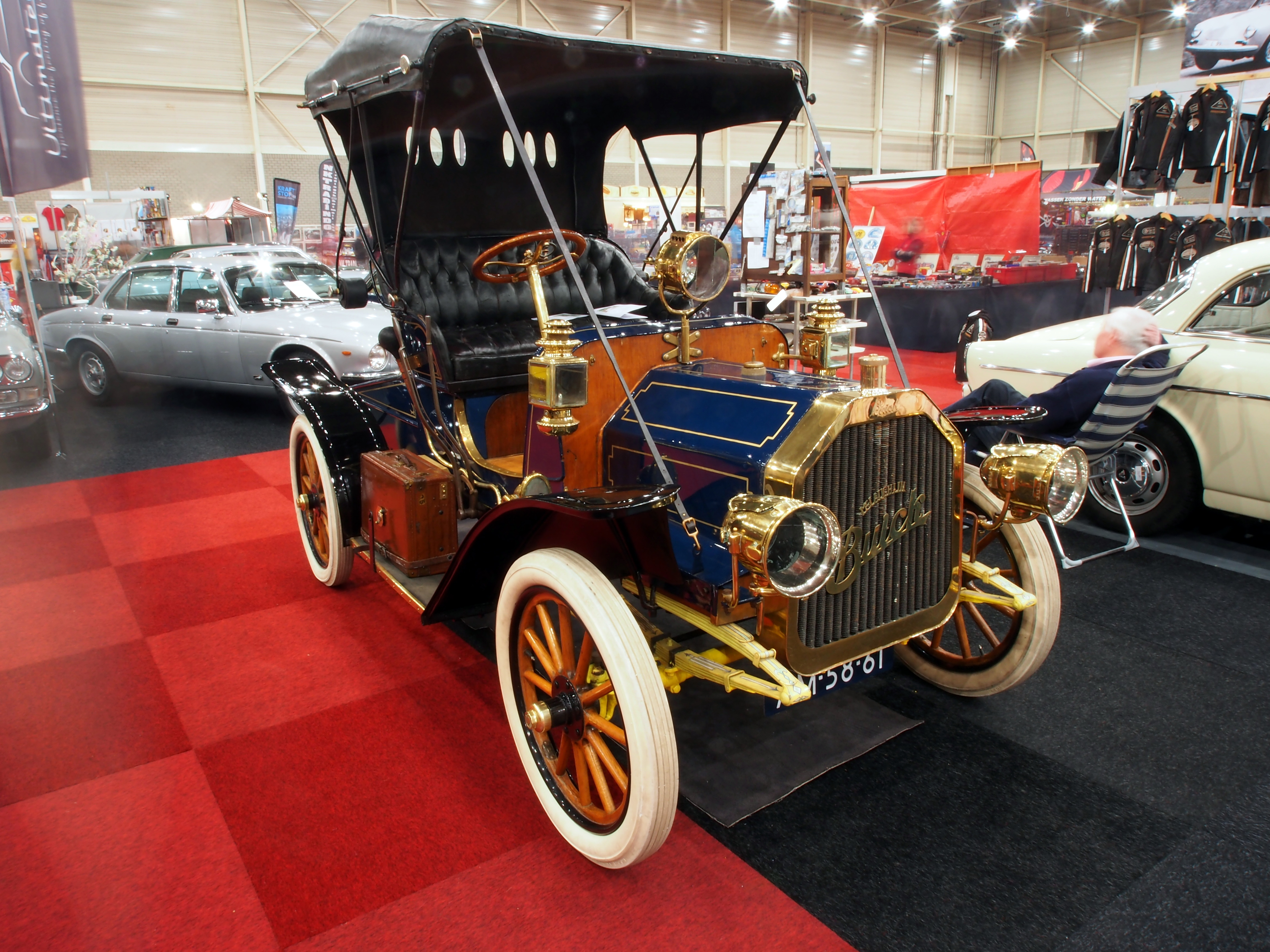 1906 McLaughlin-Buick Model G Runabout 2600cc 22hP